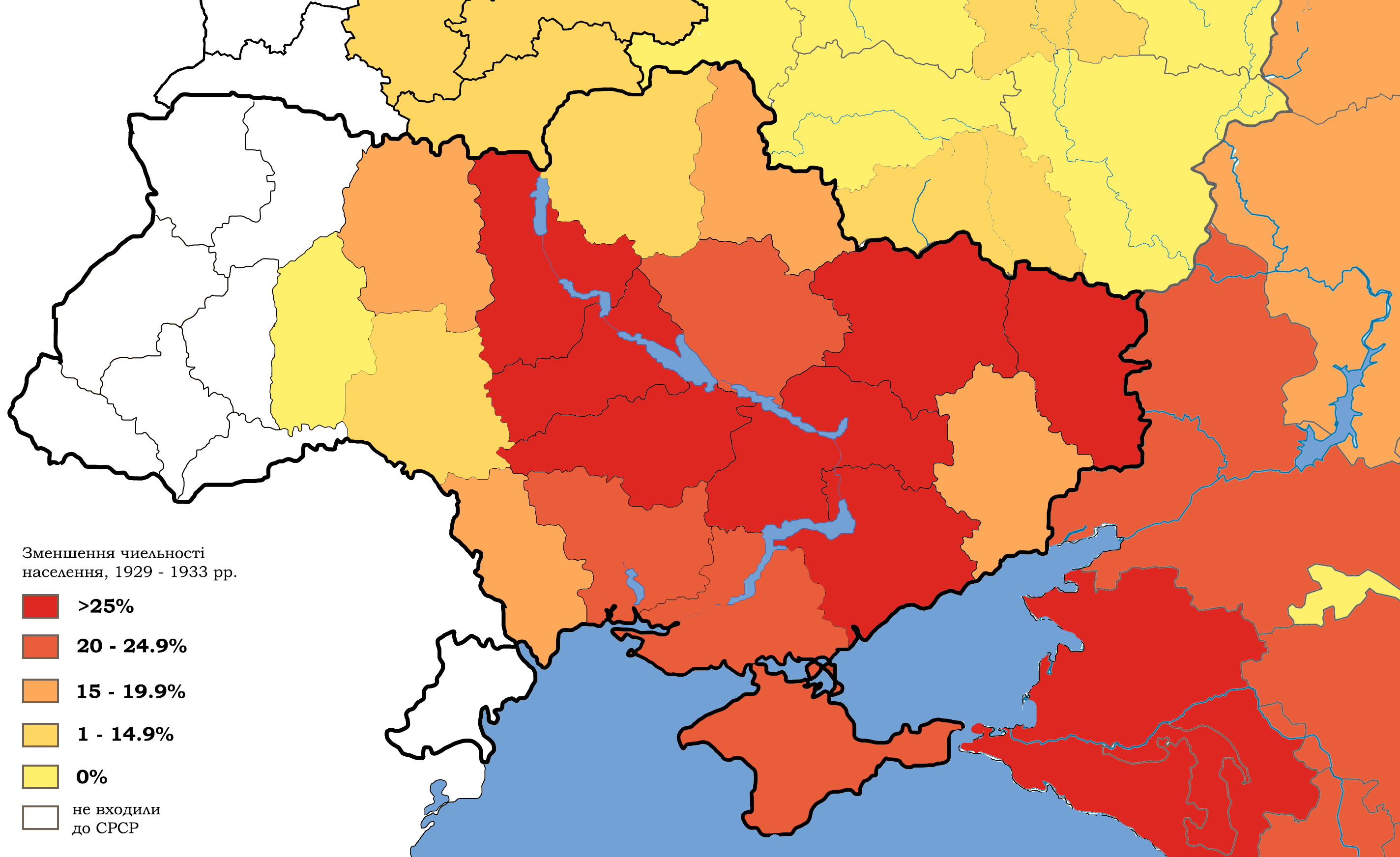 Depopulation in Ukraine and southern Russia, 1929 – 1933. White regions were not part of the USSR at that time.